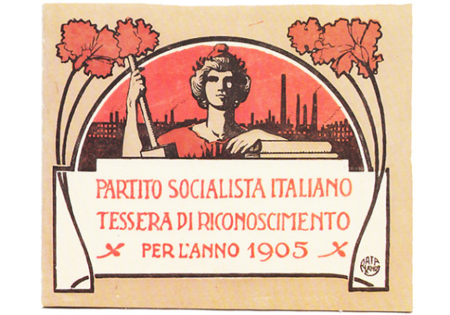 Partito Socialista Italiano membership card